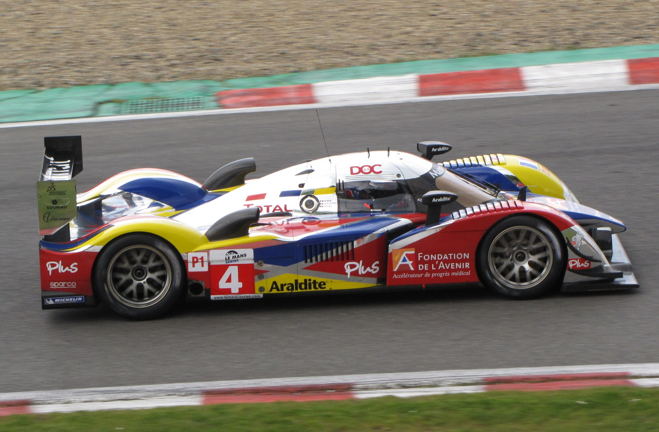 Olivier Panis driving a Peugeot 908 HDi FAP at 1000 km of Spa 2010